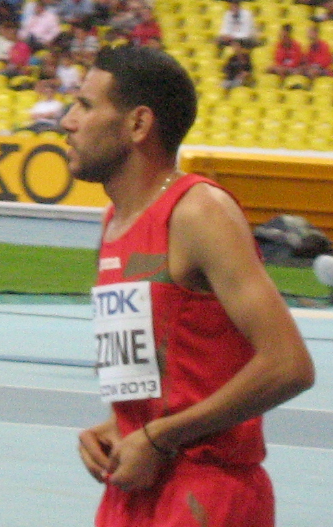 The fifth day of the World Championships in Athletics in Moscow 2013